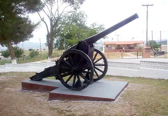 Bulgarian Krupp cannon of 12 cm calibre (either M1882 or M1892), image from the Museum of the Battle of Lahanas, Lahanas, Central Macedonia, Greece